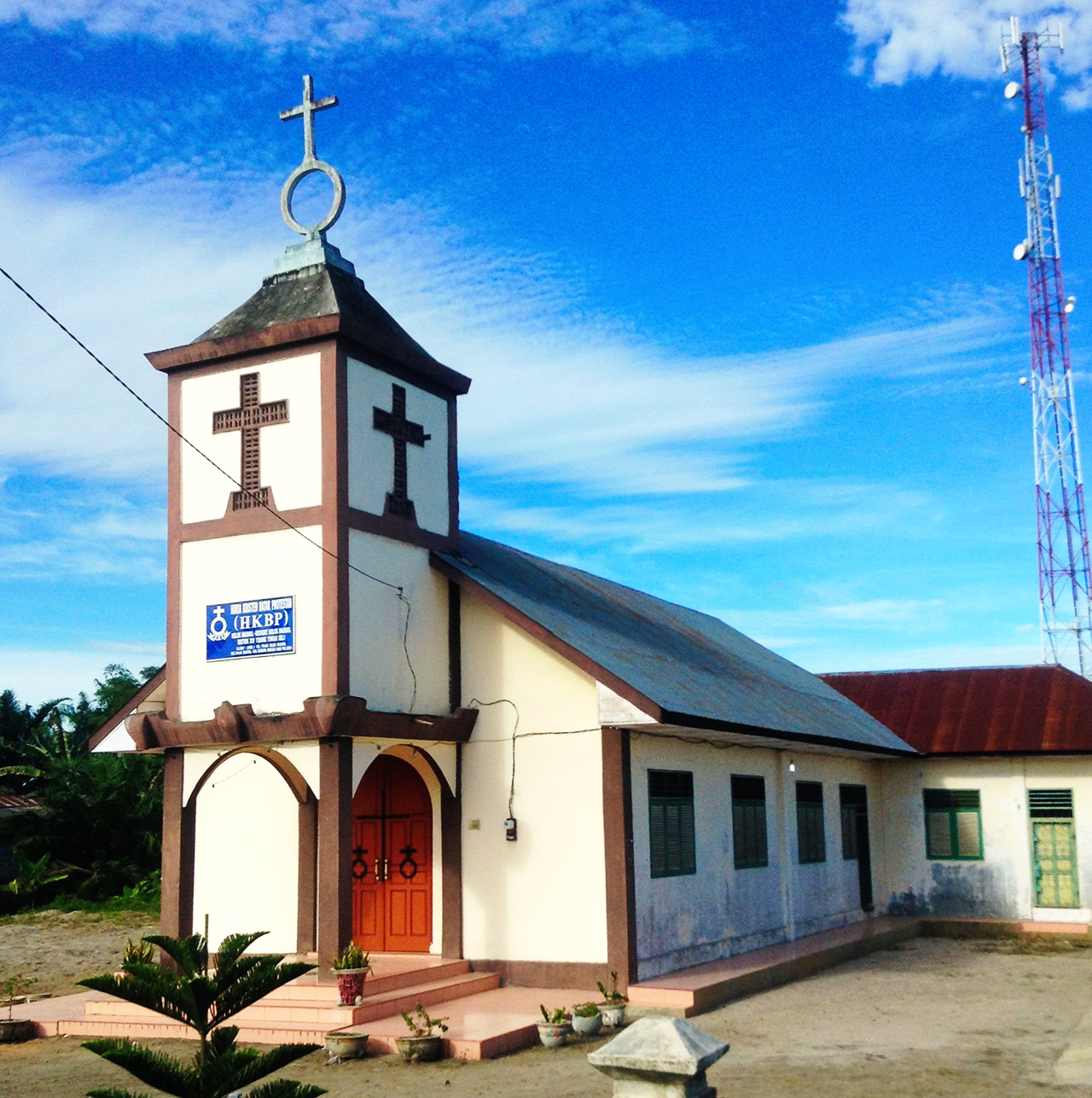 HKBP Dolok Masihul, Church in Dolok Masihul, Serdang Bedagai, North Sumatra